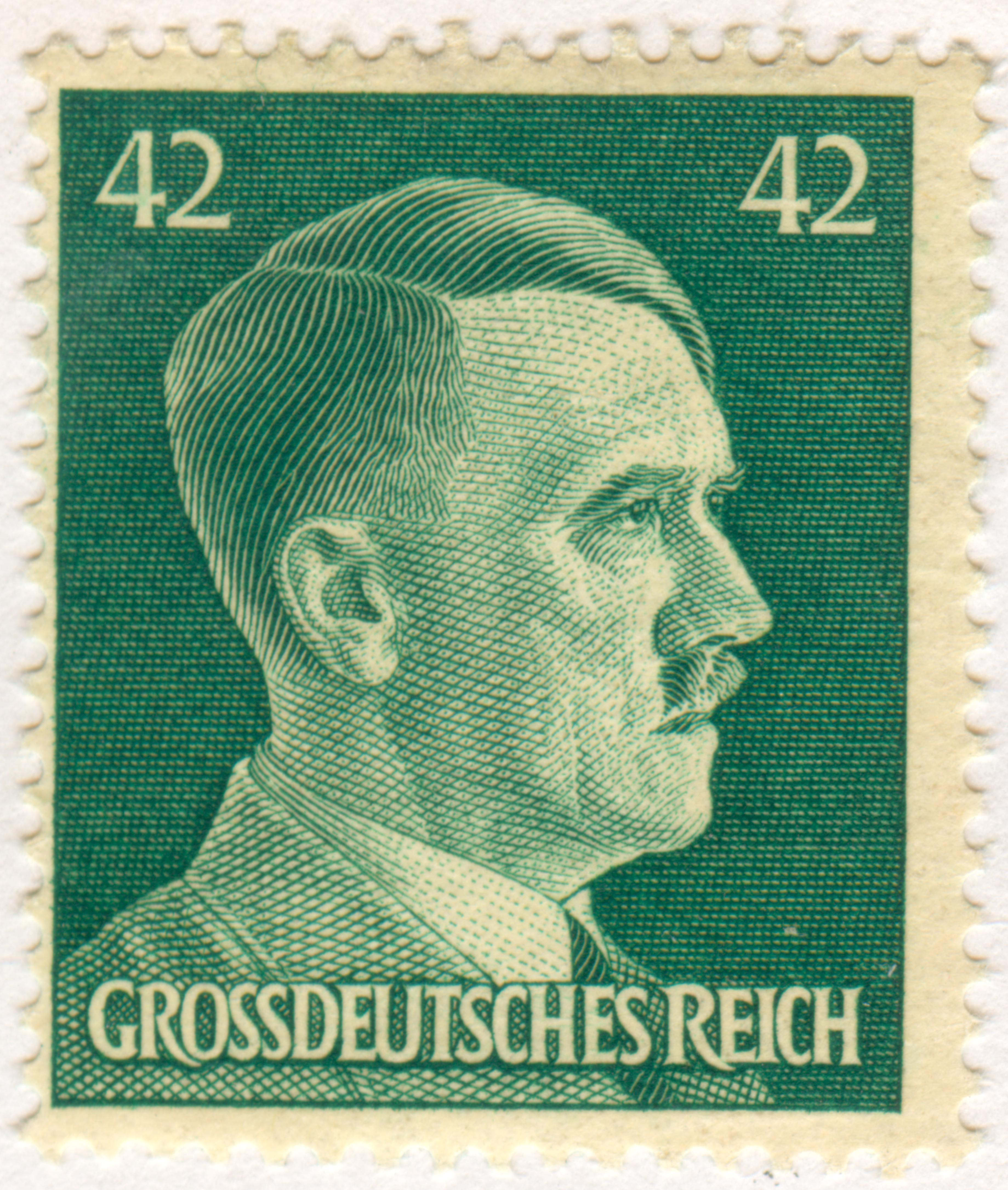 Stamp of the Greater German Reich, depicting Adolf Hitler as the Führer of the Reich. The stamp's value is 42 Pfennig.